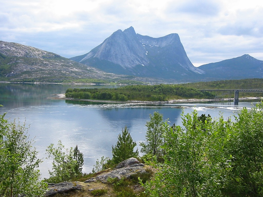 I took this picture July 5 2003. Efjord, Ballangen municipality. The bridge on the right is part of the E6 road. Orcaborealis.